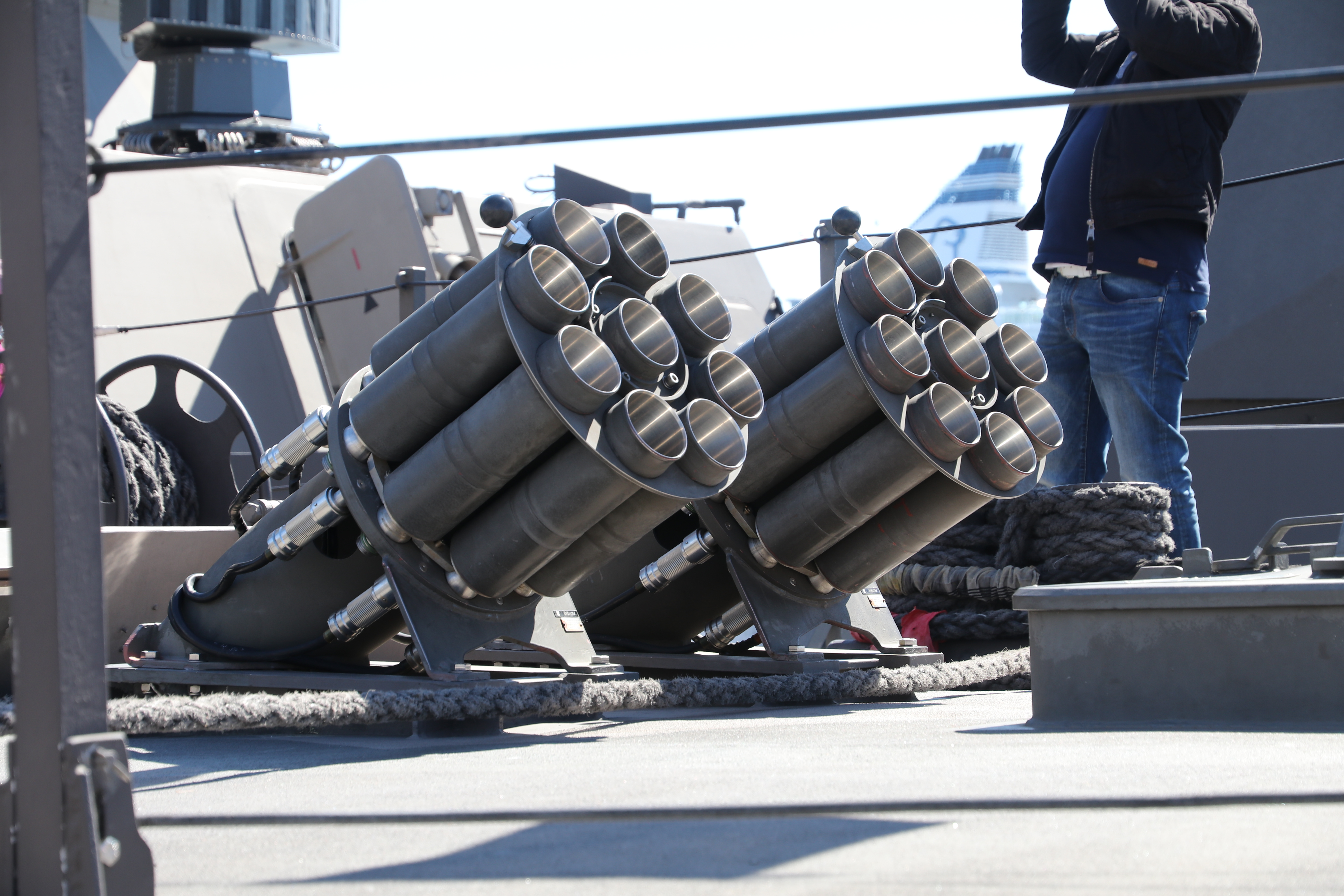 Finnish defence forces flag day 2017 naval review: missile boat Rauma Saab Elma anti-submarine mortars.